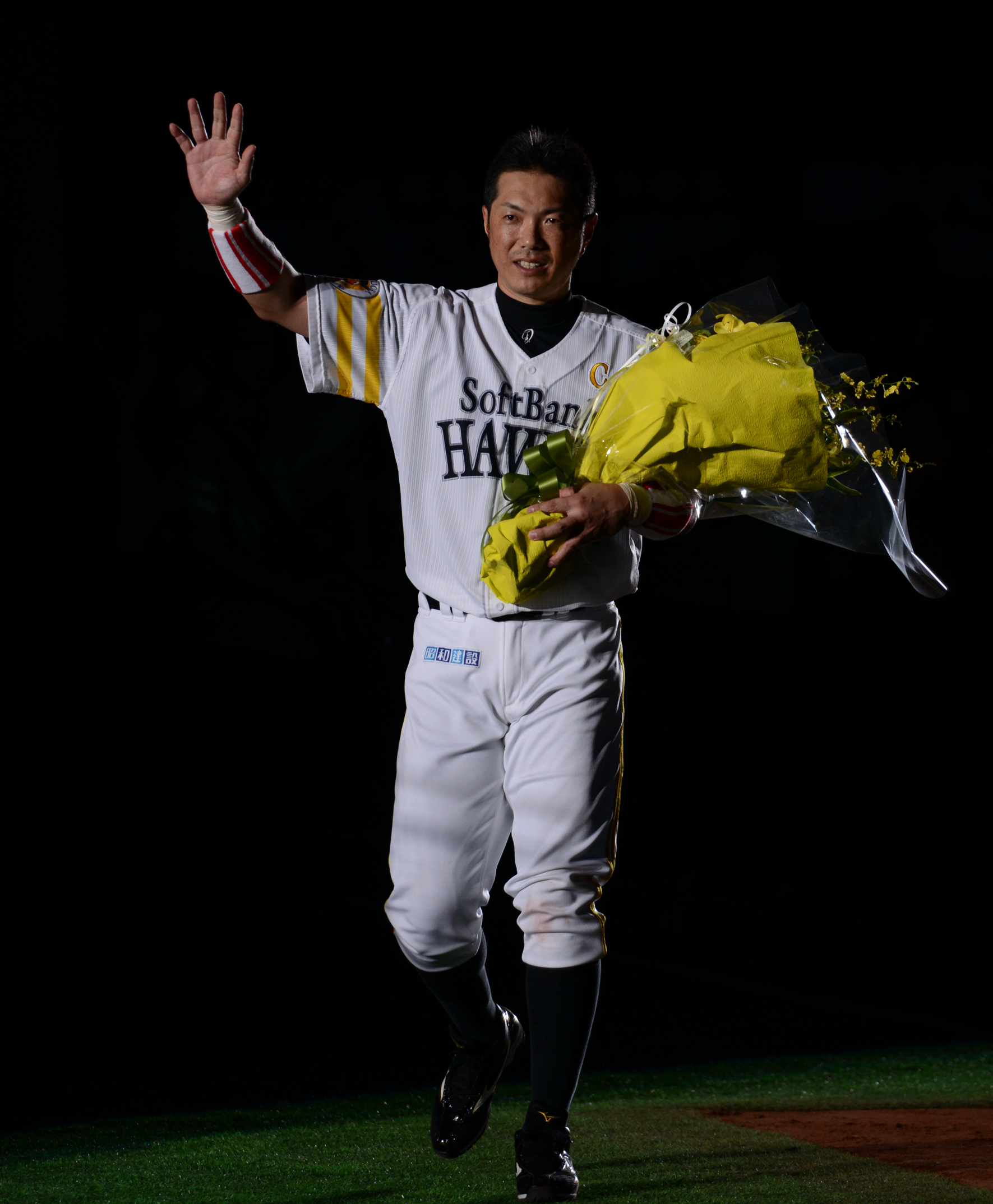 Hiroki Kokubo, infielder of the Fukuoka SoftBank Hawks, during his retirement ceremony at Fukuoka Dome